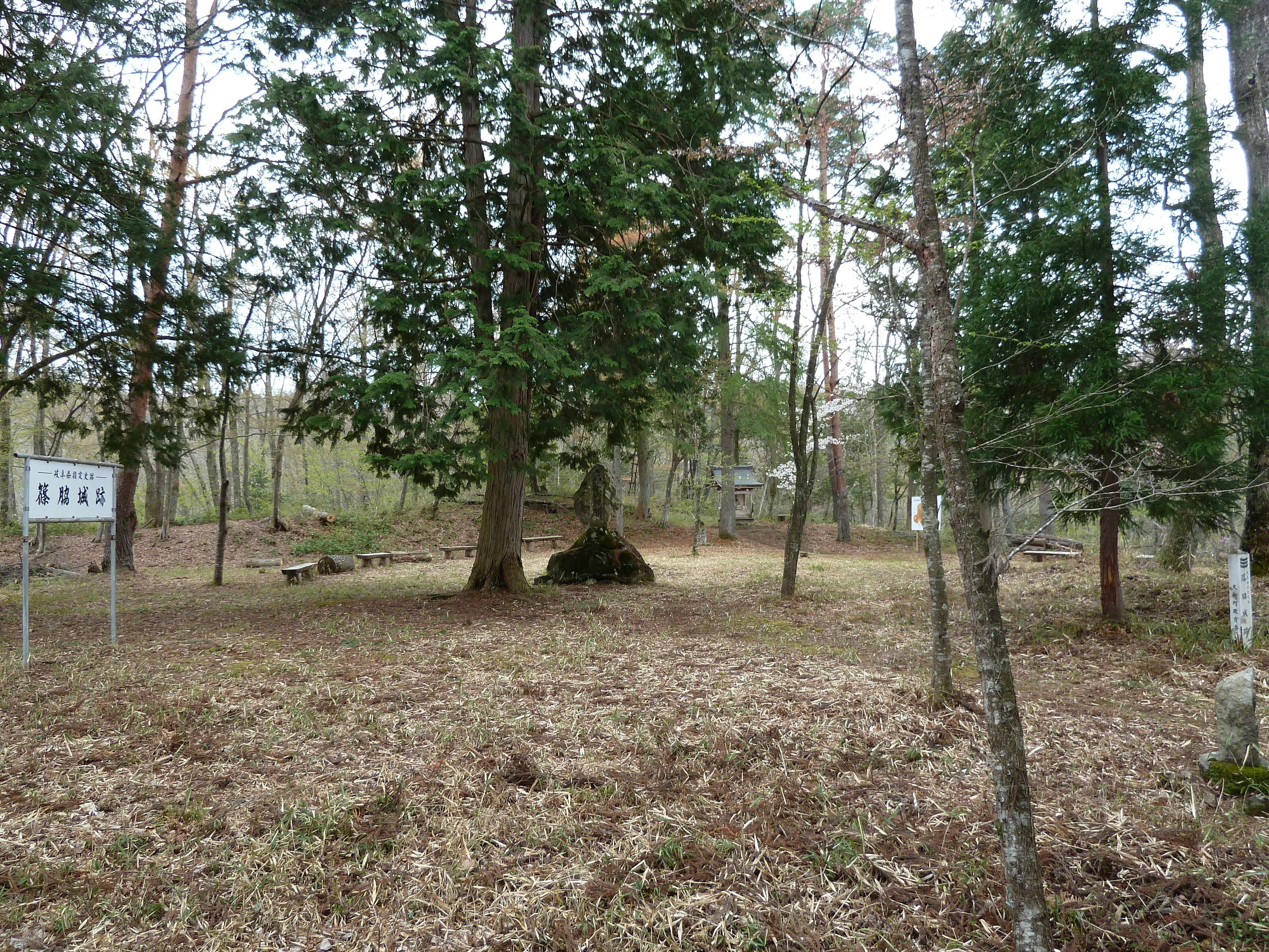 篠脇城跡